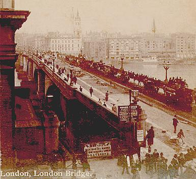 London Bridge, stereopticon card photo from early 1890s